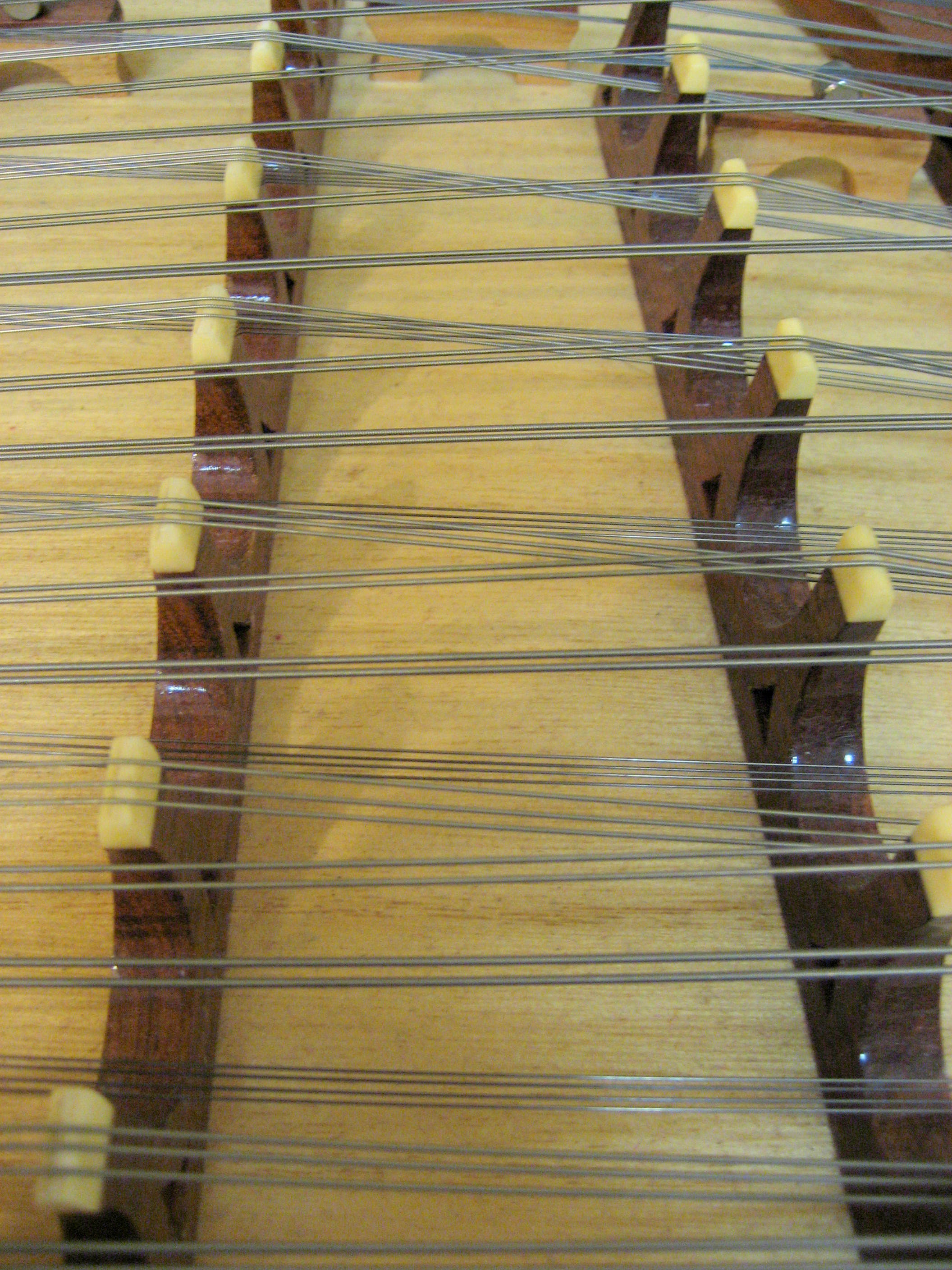 Close view of a yangqin's strings and bridges